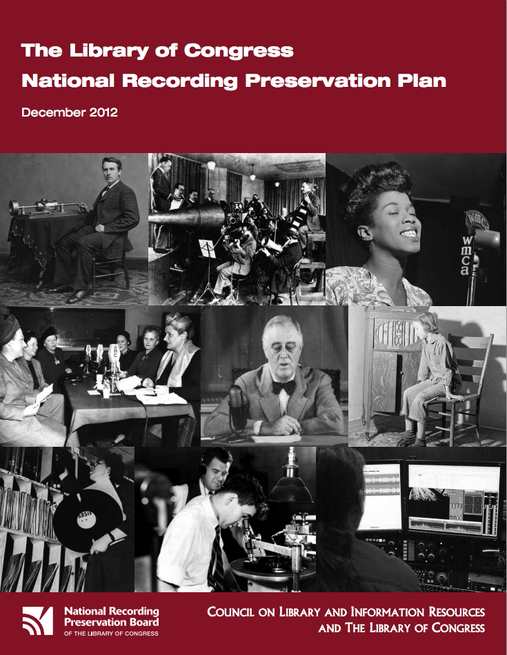 This is the cover of the document discussed at [National Recording Preservation Plan]. As written in the document itself, the cover is public domain because it is a work produced by the U.S. Government, and therefore not subject to copyright. Individual photographs are described in p.3 of the document.